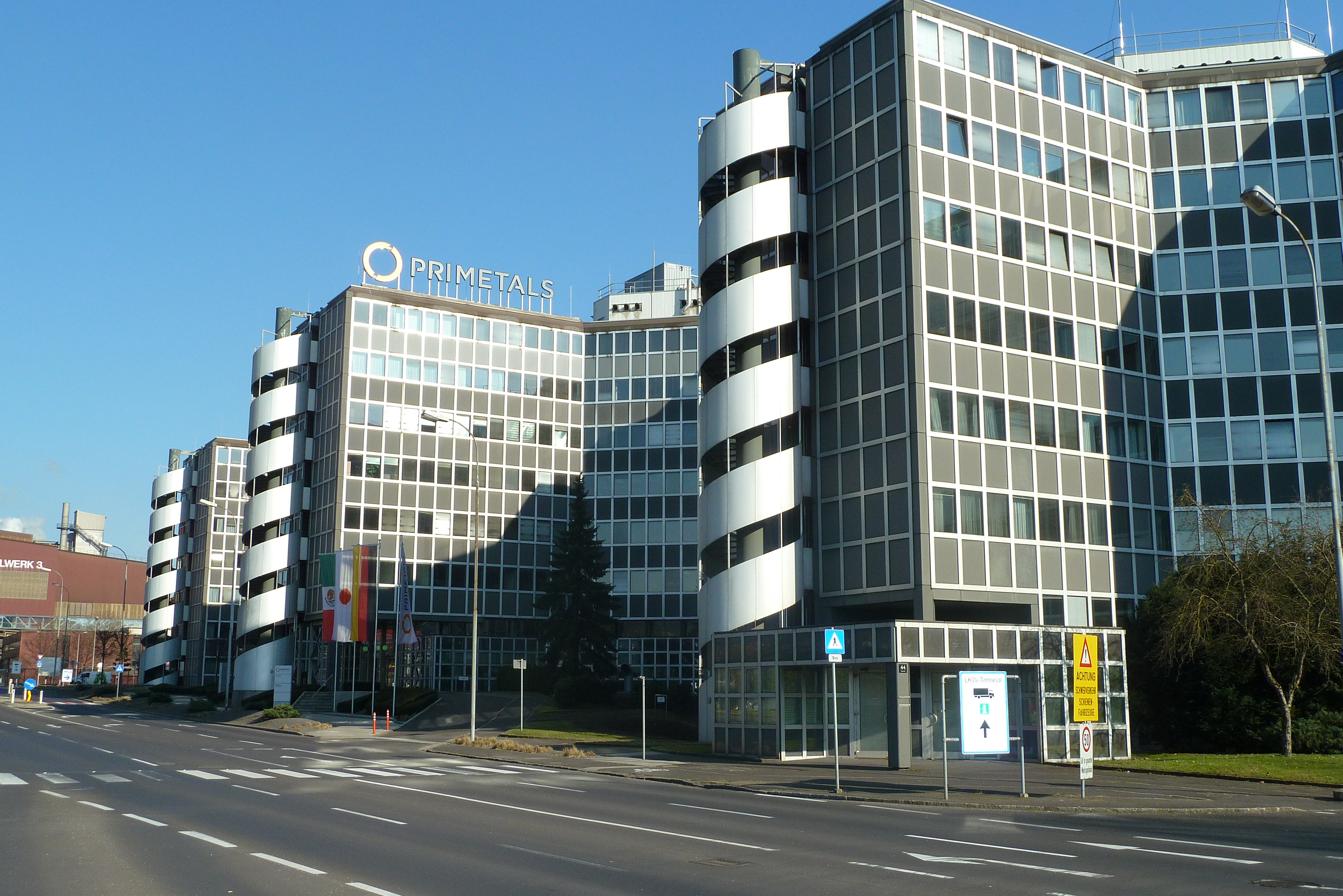 Primetals office building in Linz